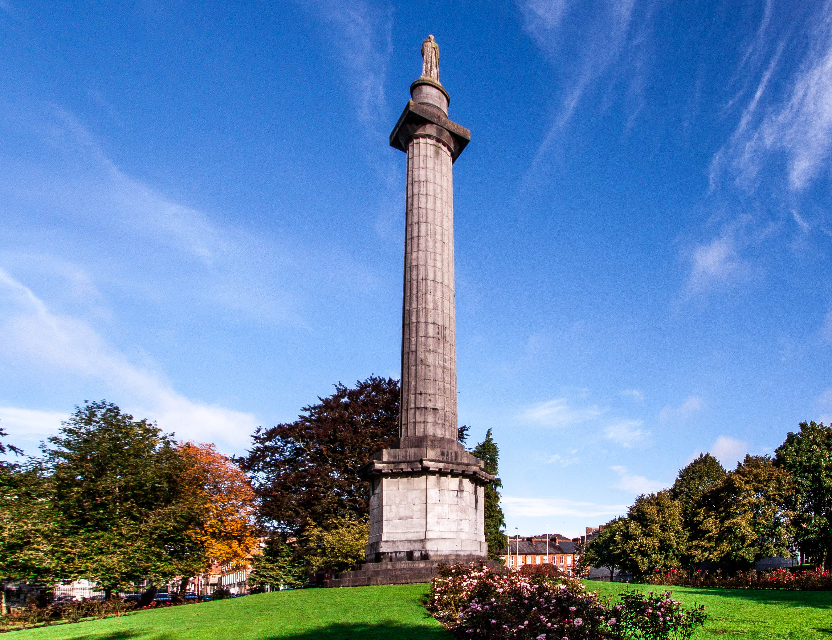 Rice Memorial